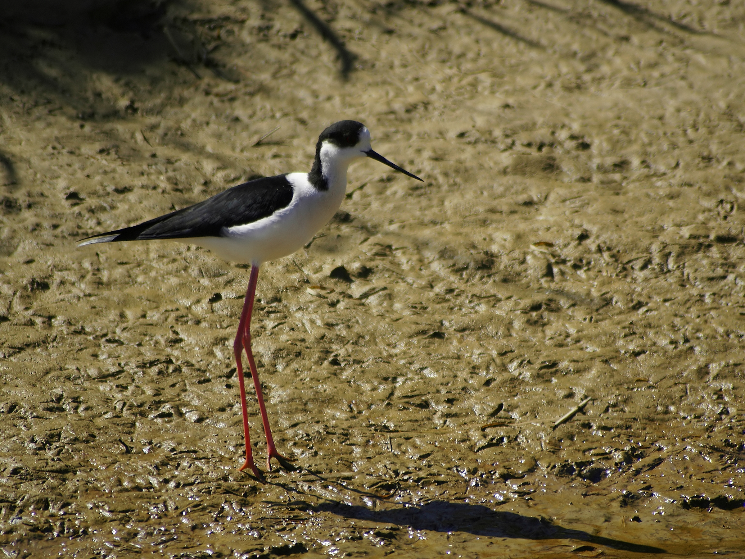 ♂ near Camarles, Baix Ebre, Catalonia, Spain